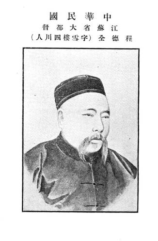 Cheng Dequan